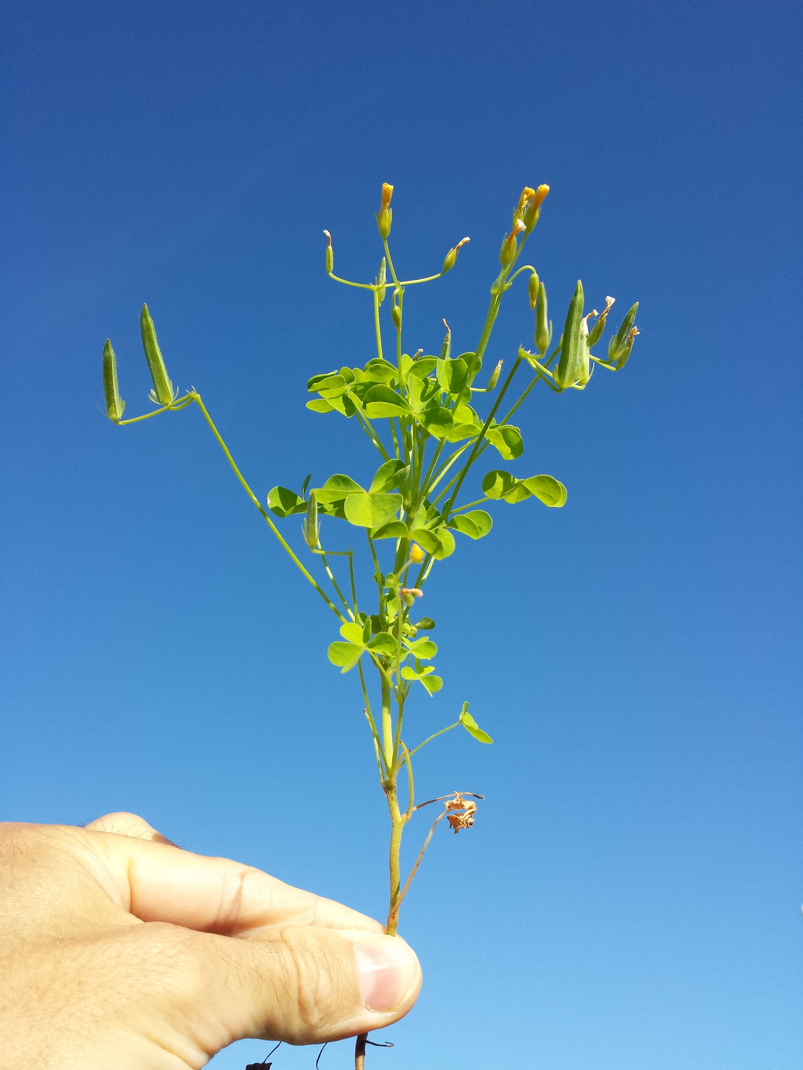 Habitus Taxonym: Oxalis dillenii ss Fischer et al. EfÖLS 2008 ISBN 978-3-85474-187-9 Location: Floridsdorf rail station, Vienna-Floridsdorf - ca. 160 m a.s.l. Habitat: ballast